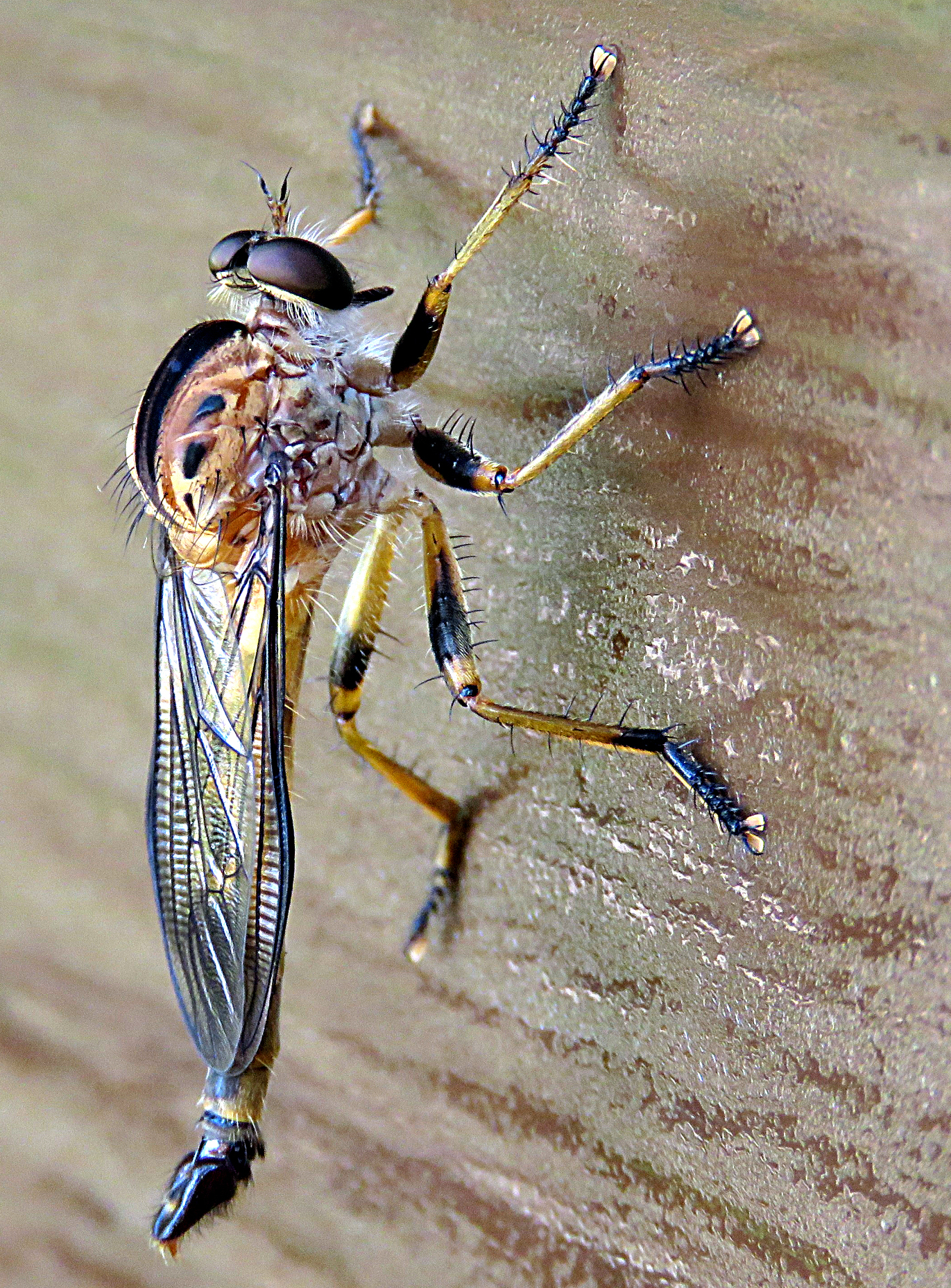 Large Robber Fly, taken in Cape Town, South Africa.